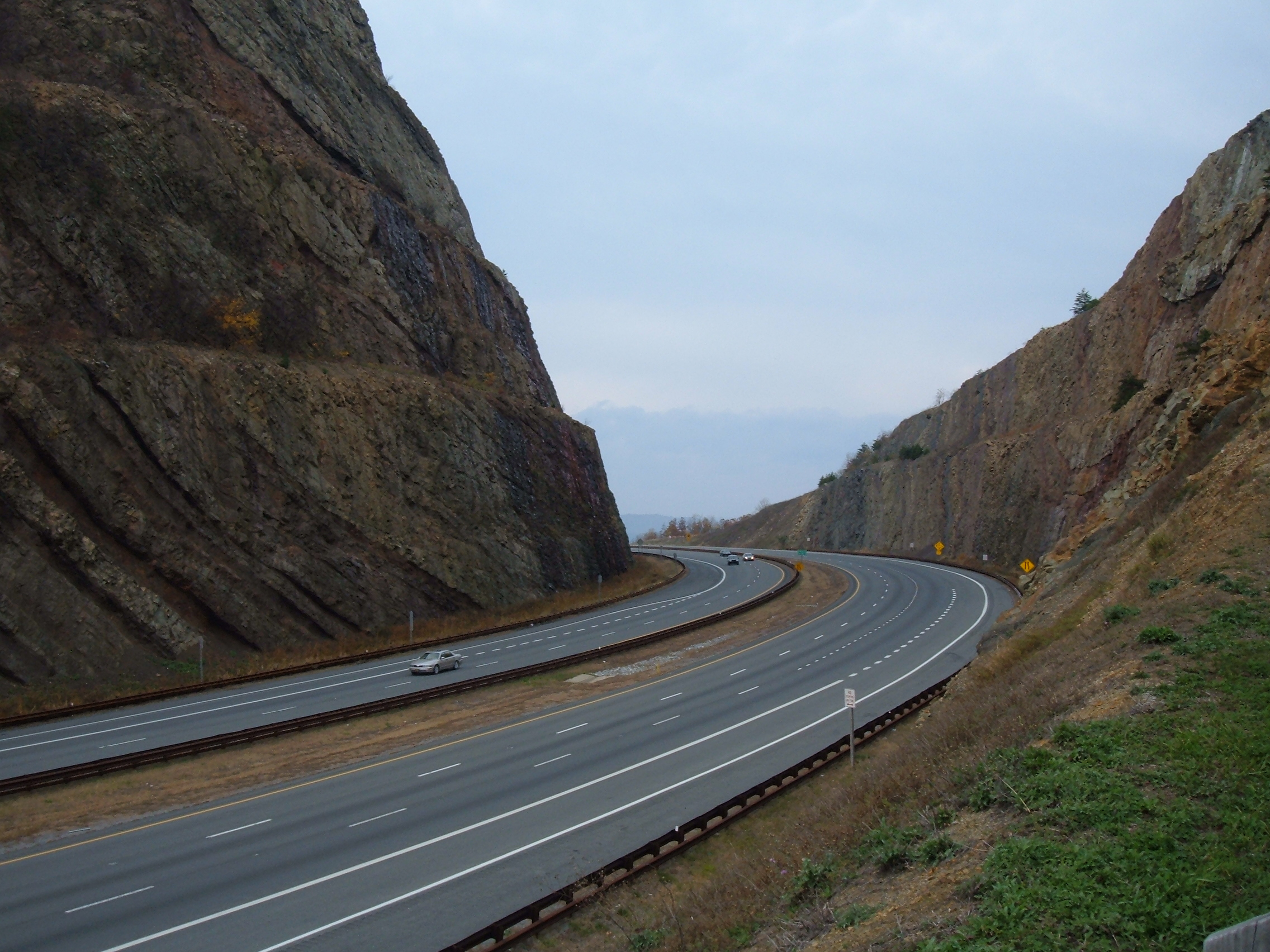 The Sideling Hill Road Cut for Interstate 68 in Maryland. Self made photo.